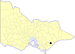 Location of the City of Sale within Victoria.